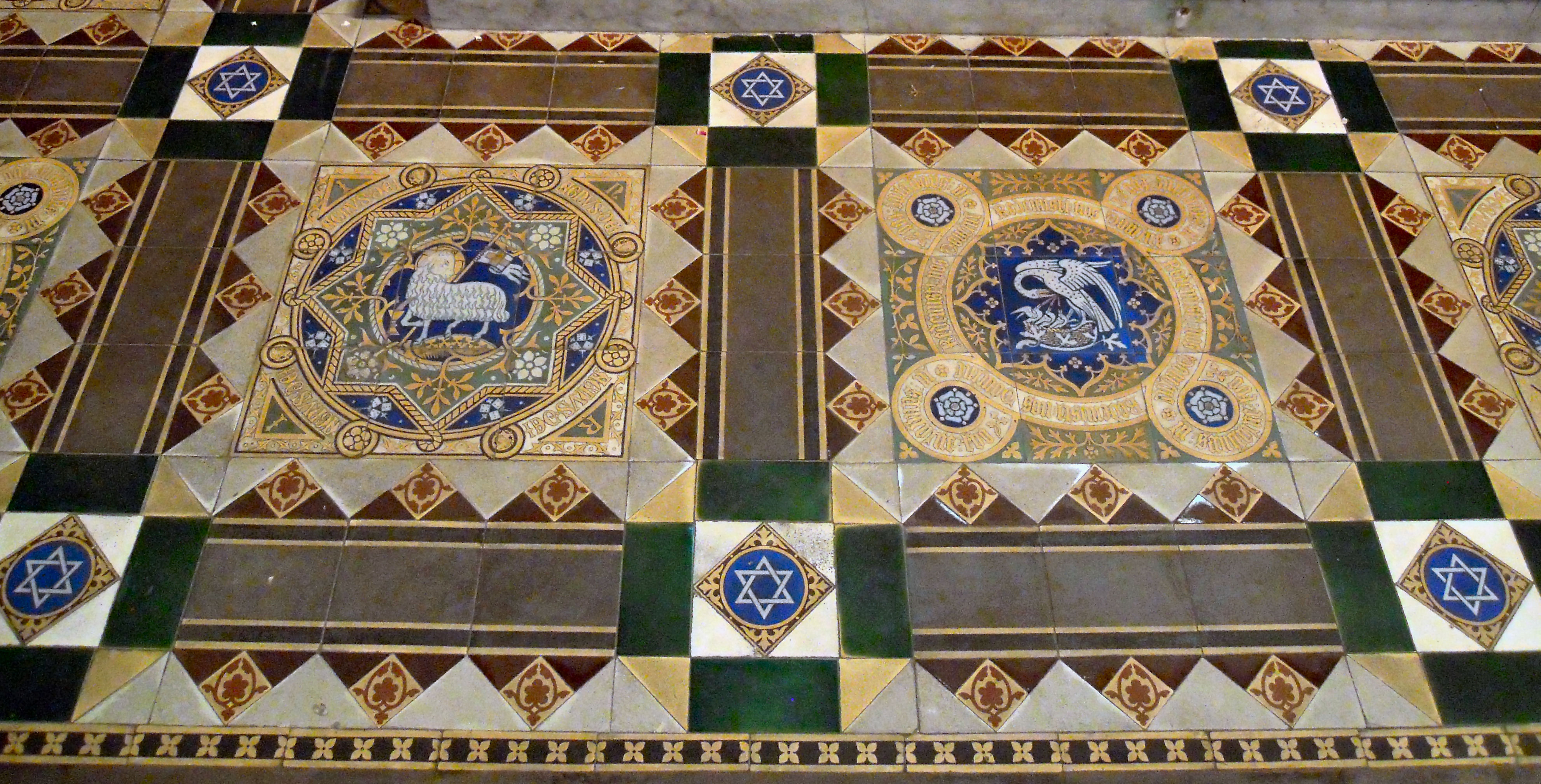 Tiles in the Sanctuary showing Masonic designs in Holy Trinity church in Aldershot in Hampshire